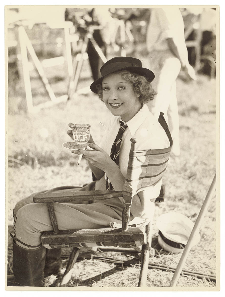 Helen Twelvetrees during the making of Thoroughbred, Sydney, 1936 Sam Hood Format: Silver gelatin photograph Notes: One of the first American women to star in an Australian film From the collections of the Mitchell Library, State Library of New South Wales Information about photographic collections of the State Library of New South Wales: .au/search/SimpleSearch.aspx Persistent url: .au/item/itemDetailPaged.aspx?itemID=153778